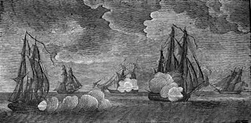 Caption: The Wasp and Reindeer. Engraving by Abel Bowen, from "The Naval Monument."